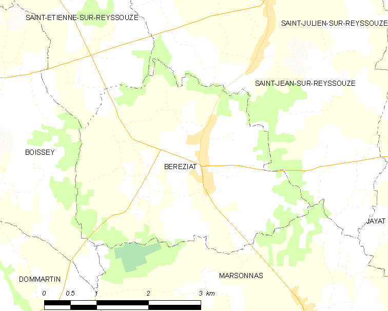 Map of French commune: Béréziat Map commune FR insee code 01040.png